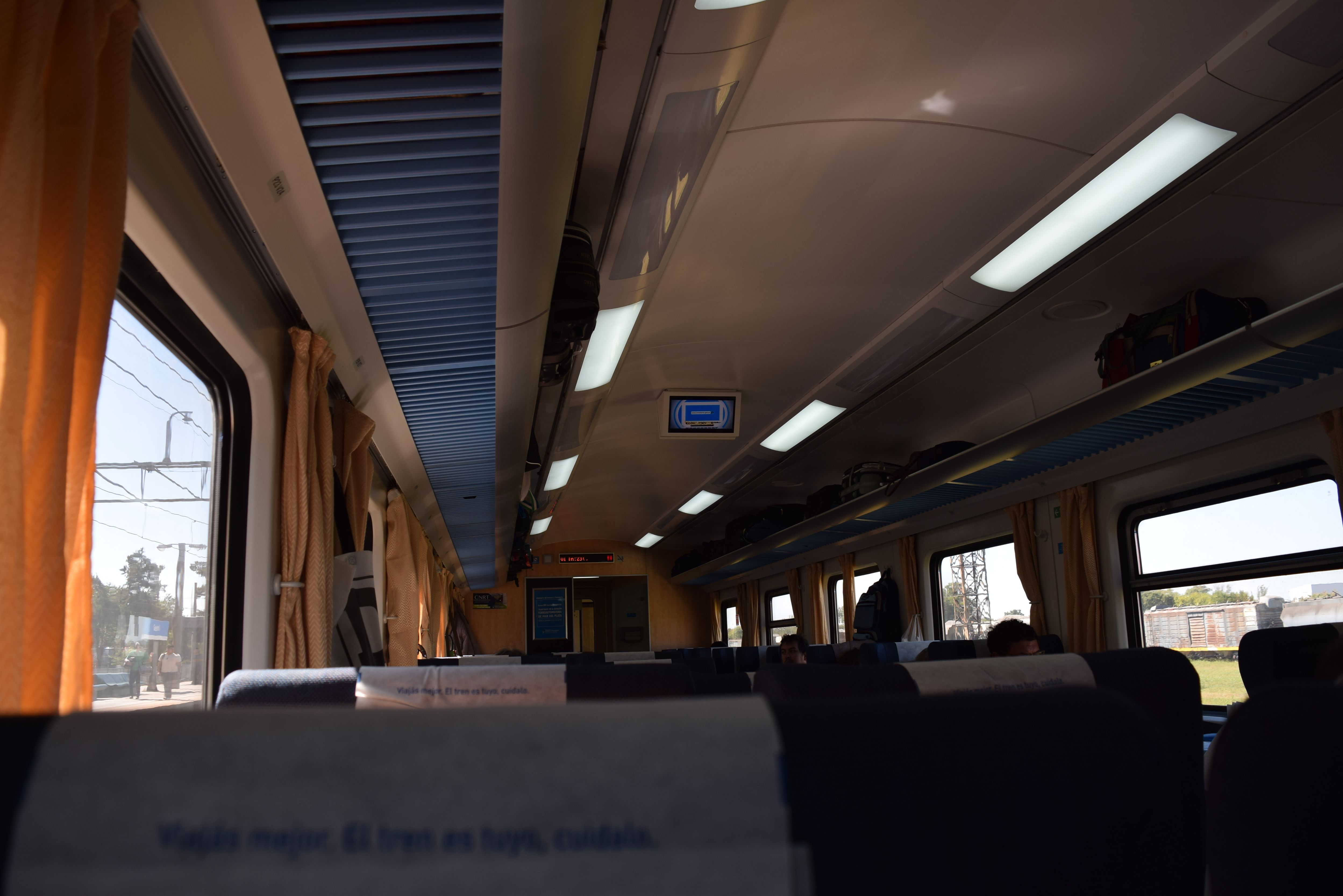 Interior of a General Roca railway long distance train.